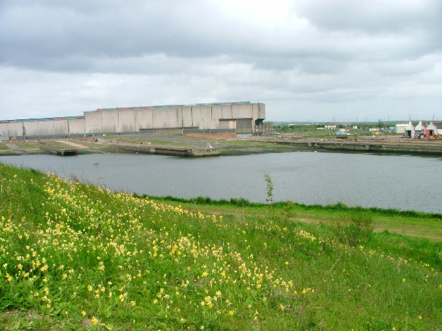 The Furness Shipyard, Haverton Hill. Teesside once had a thriving ship building industry. The Furness Shipyard had twelve berths and its location on the bend of the river provided easy launching for ships up to 750 feet in length. The first ship to be launched was the 10,000 ton S.S. War Energy on 29th April 1919. The shipyards closed in 1969 by which time its most recent orders had been for bulk supertankers. This photo is taken from south of the river looking north. This stretch of the river is named on the 1915 OS map as "Bamlet's Bight or Cocklegate".